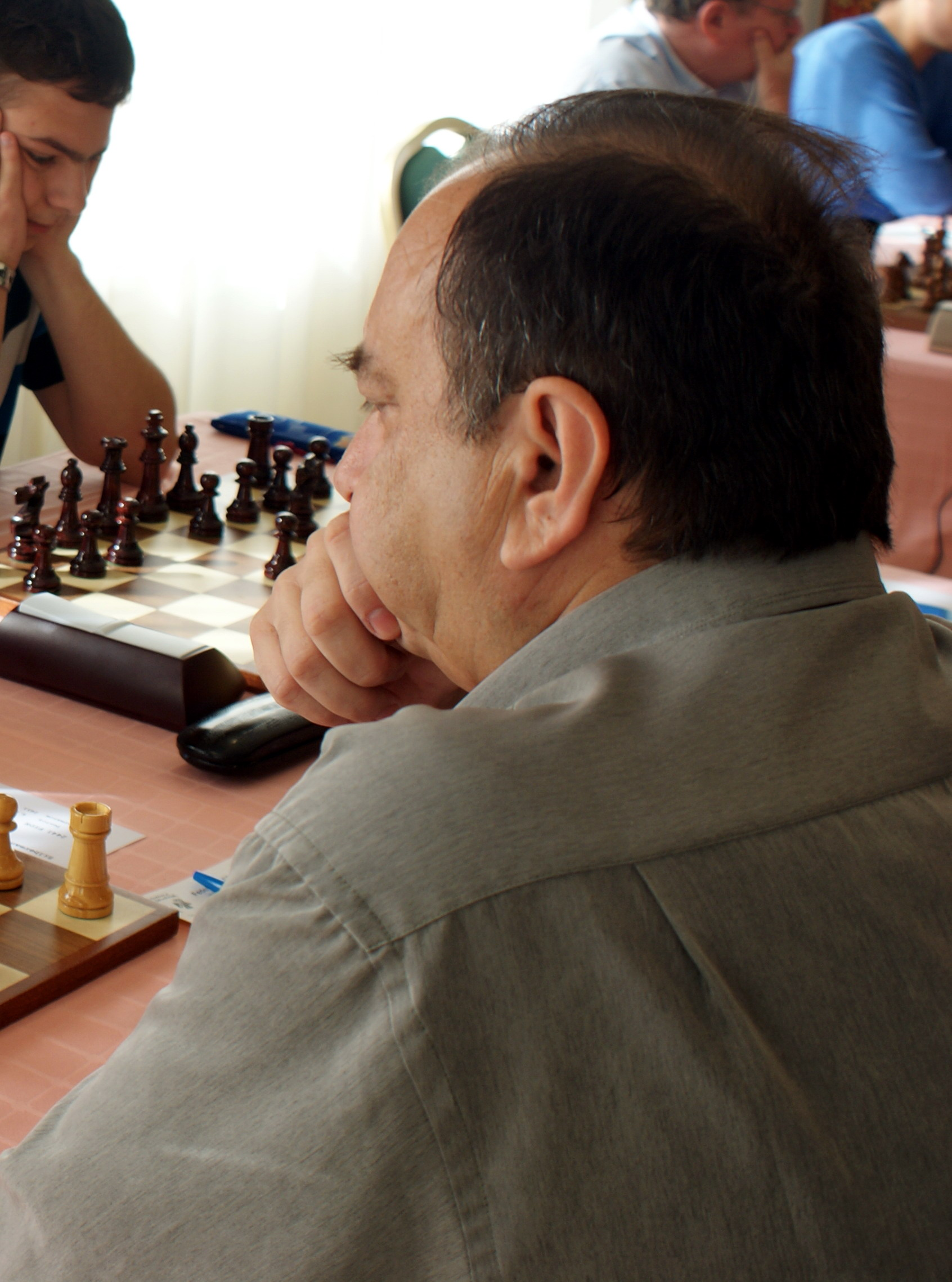 GM Yaacov Zilberman (Israel) XXVIII Obert Internacional d'Andorra Ronda 9 Hotel St. Gothard - Erts